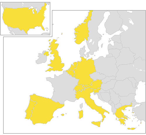 ARAG serves its customers in the USA and twelve European countries outside Germany (Belgium, Greece, Italy, Luxemburg, Netherlands, Norway, Austria, Portugal, UK, Switzerland, Slowenia, Spain).